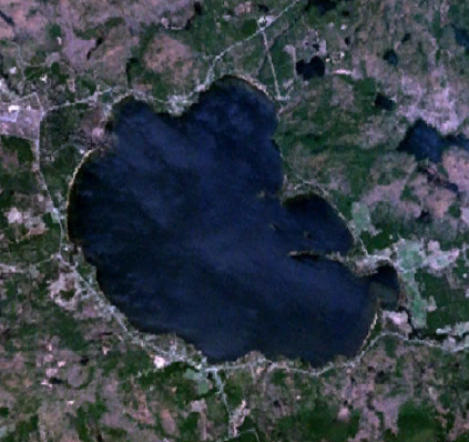 Satellite photo of Round Lake, Renfrew County, Ontario.